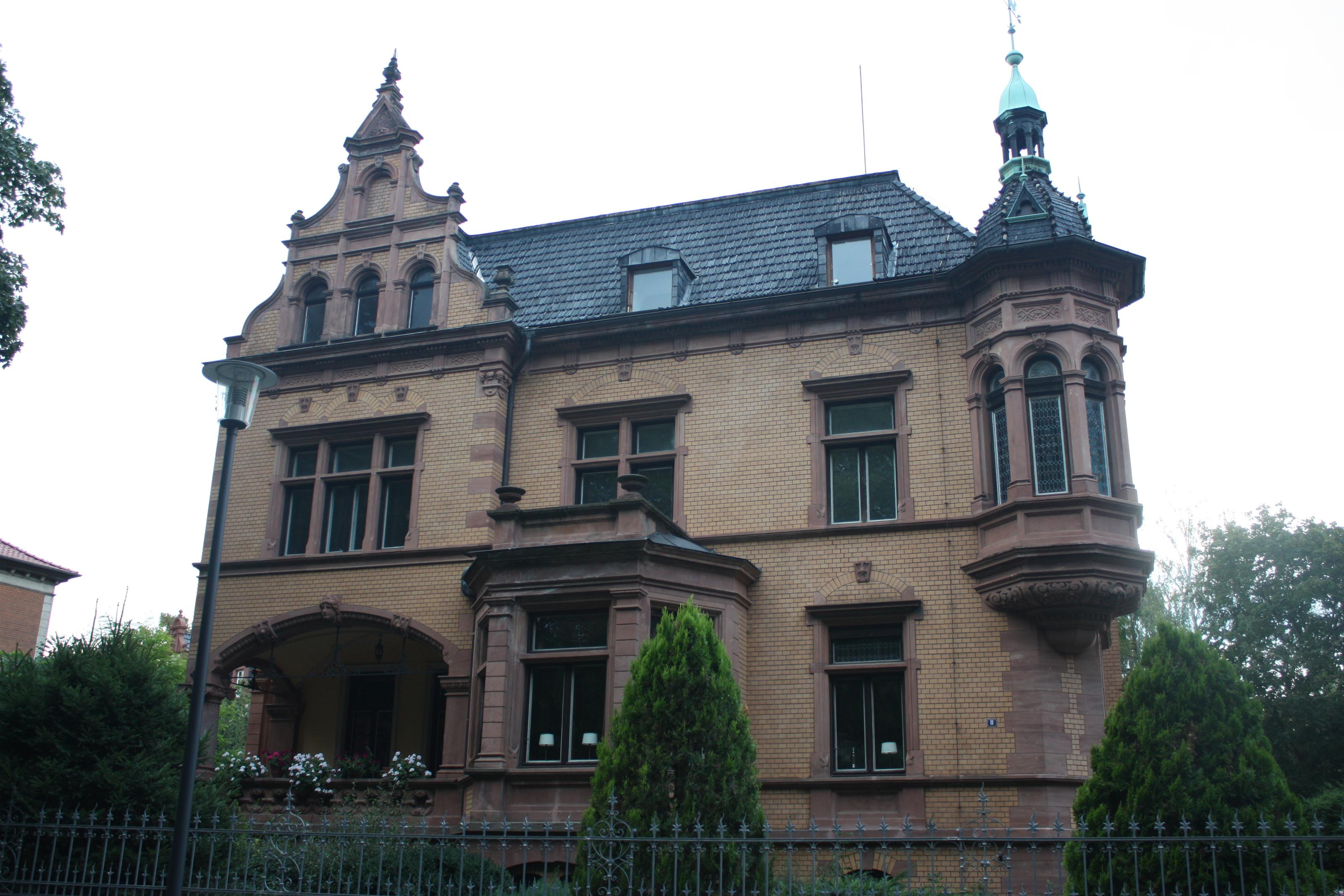 This is a photograph of an architectural monument.It is on the list of cultural monuments of Quedlinburg Brühlstraße 08 (Quedlinburg)